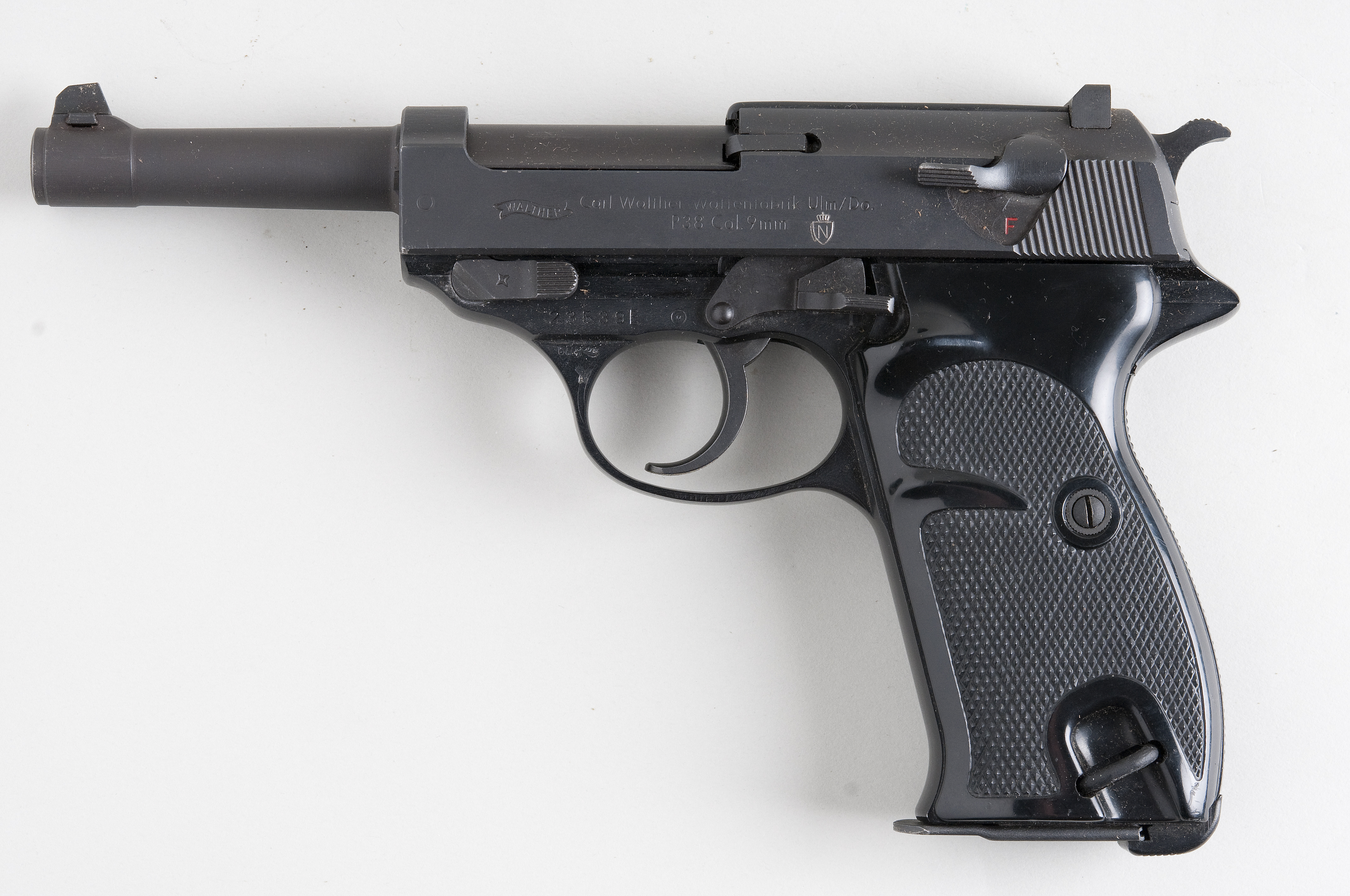 Walther P38N From flickr user handvapensamlingen - Pistols used in Norway.